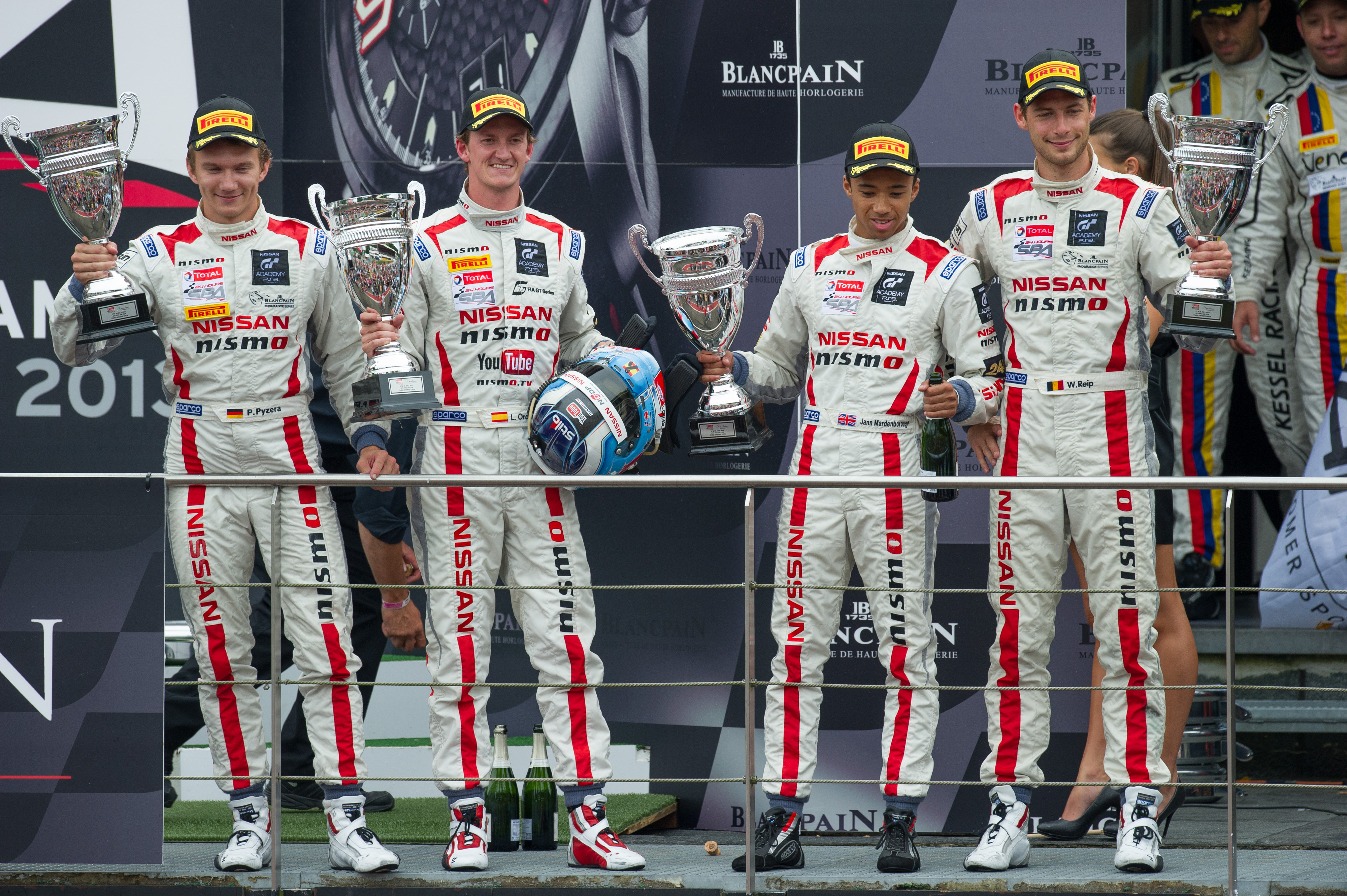 Blancpain Endurance Series 2013. Spa 24 Hour, Circuit Spa-Francorchamps, Belgium 24-28th July 2013.